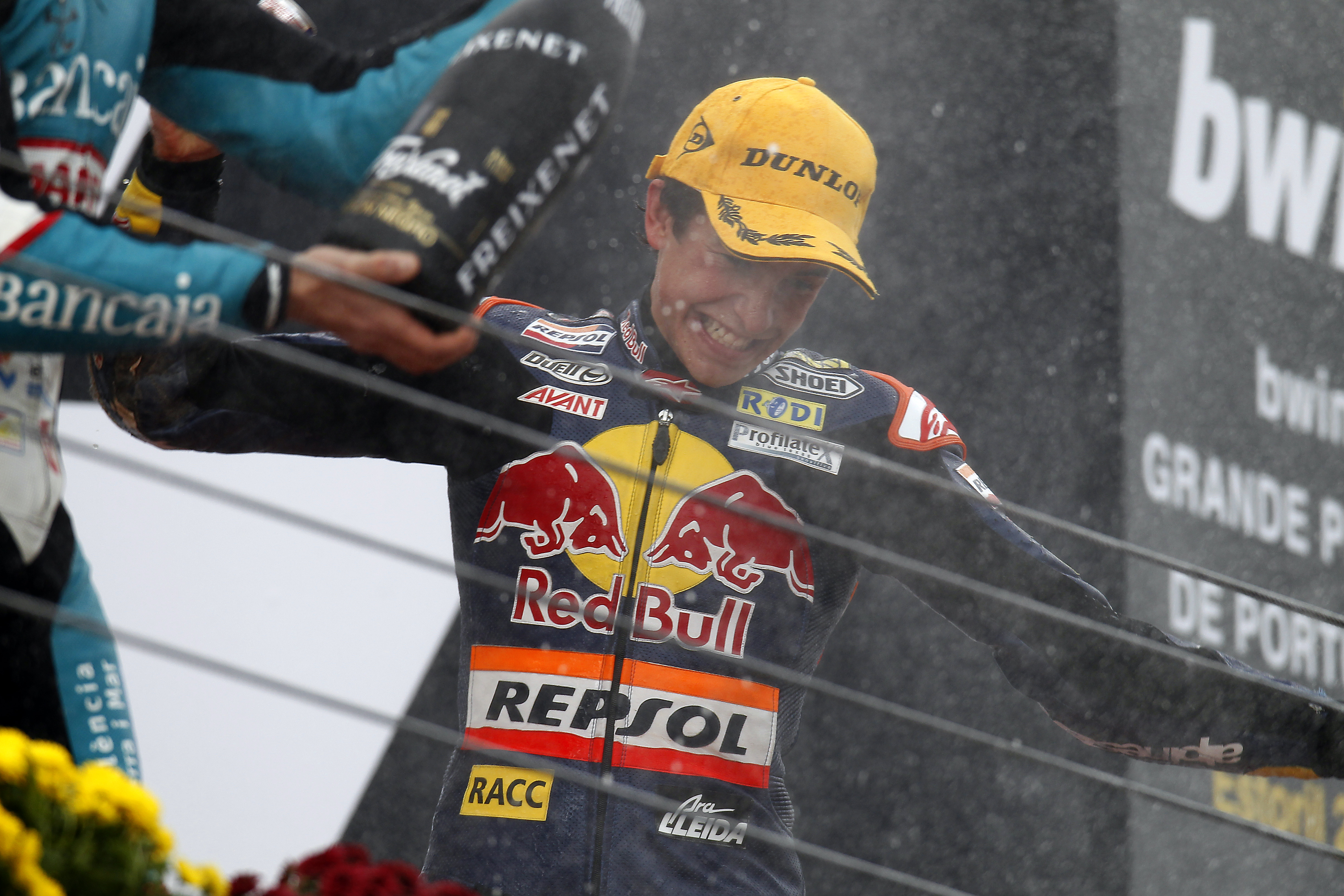 Marc Márquez, celebrating on the podium after winning the 2010 Portuguese Grand Prix.